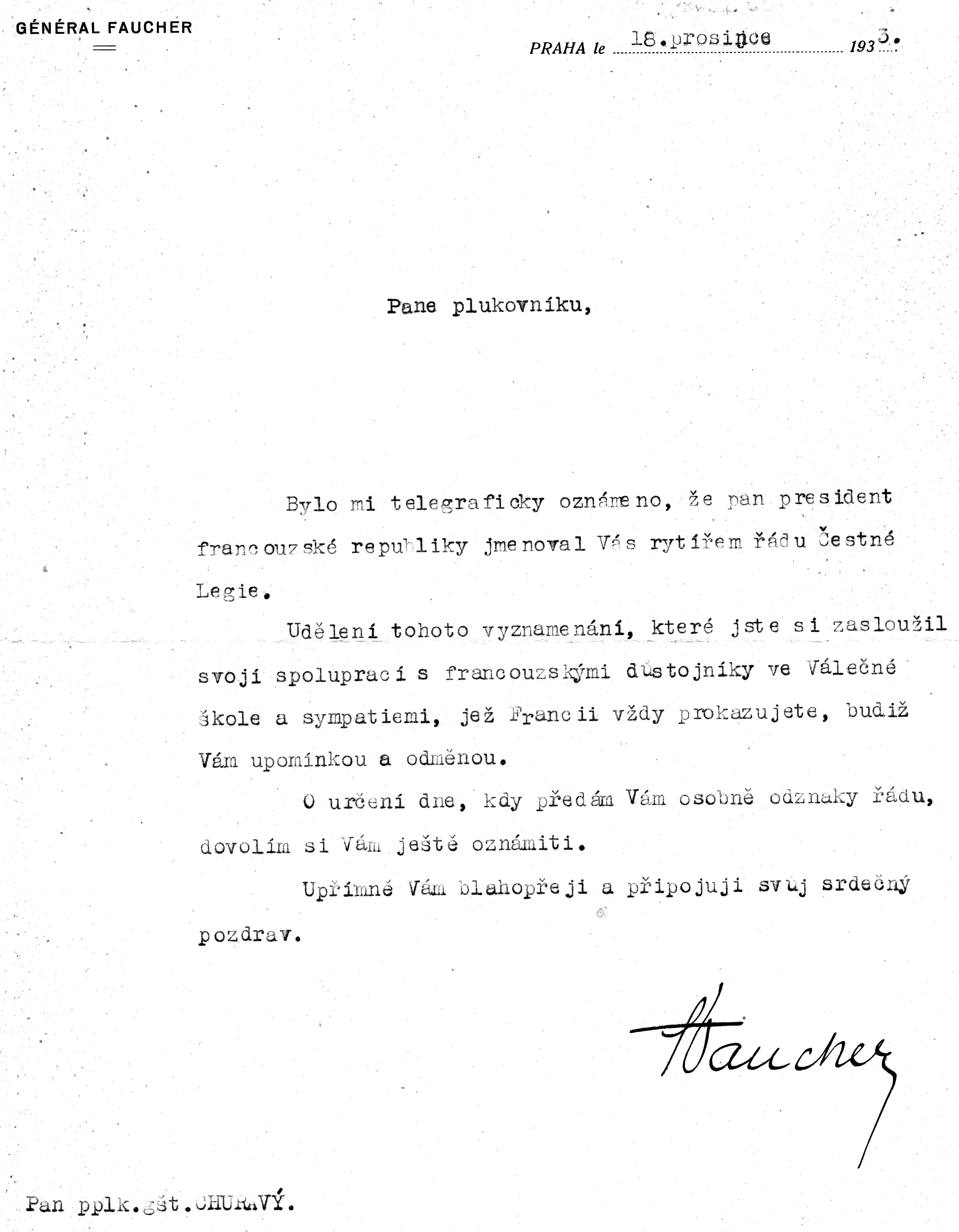 General Faucher, Prague, December 18, 1933 Announcement of the appointment of Lieutenant Colonel Josef Churavý by the Knight of the Order of Honorary Legion. Mr. Colonel, I was telegraphically informed that the President of the French Republic has appointed you the Knight of the Order of Honorary Legion. The award of this honour, which you deserved through your cooperation with the French officers in the War School and the sympathy that you always demonstrate to France, will be a reminder and a reward to you. I will let you know when I (personally) will hand over to you your personal badges of the Order of Honorary Legion. I sincerely congratulate to you and I attach also my sincere greetings. To Lieutenant Colonel of General Staff Churavý Signed: The Commander of the French military mission in the Czechoslovakia - General Louis-Eugene Faucher.